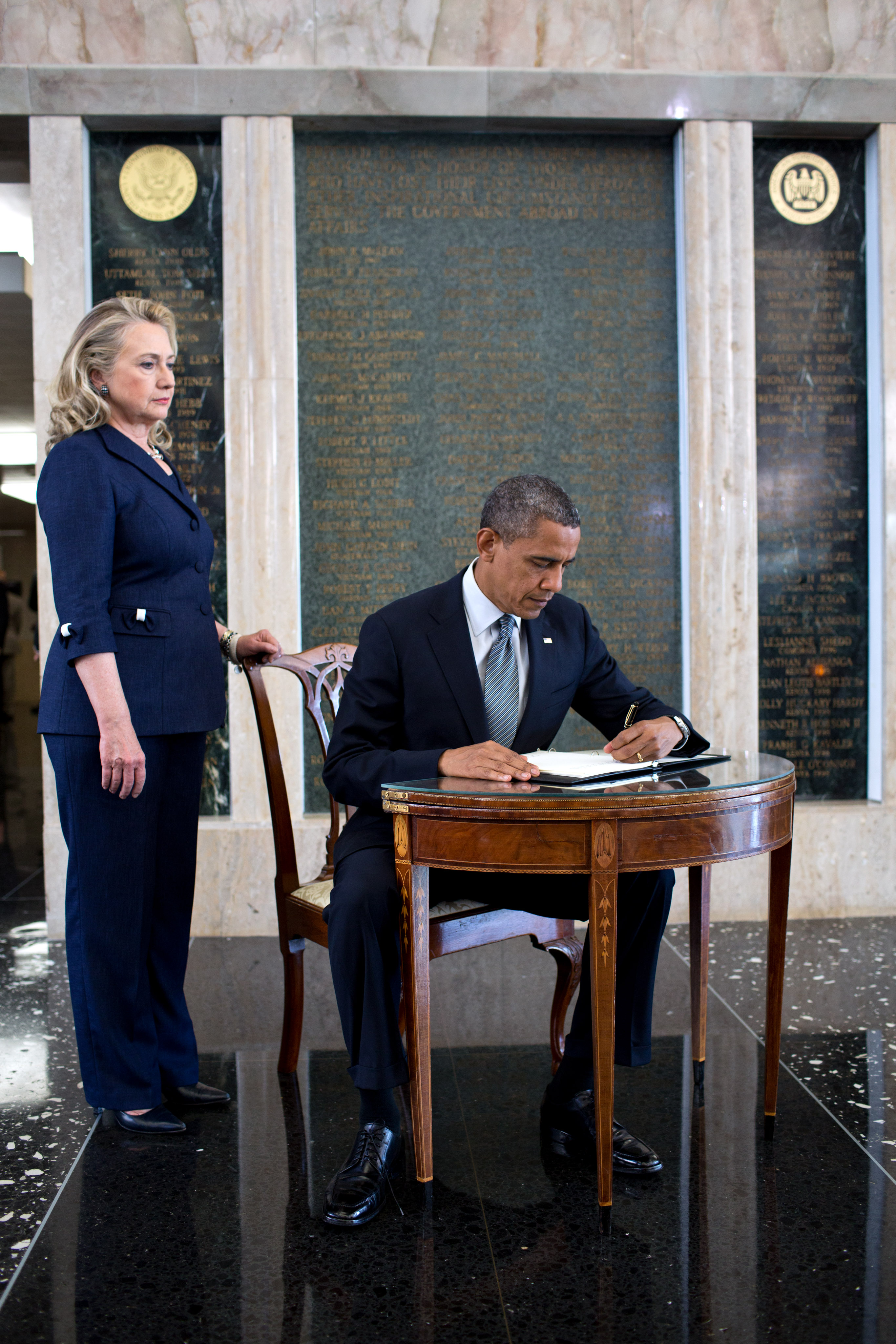 President Barack Obama signs a condolence book in memory of Chris Stevens, U.S. Ambassador to Libya, after addressing State Department employees at the State Department in Washington, D.C., Sept. 12, 2012. Secretary of State Hillary Rodham Clinton stands at left. Amb. Stevens was killed along with three others at the consulate in Benghazi, Libya yesterday. Behind the President and Secretary Clinton is a memorial to foreign service officials who have lost their lives while serving abroad.